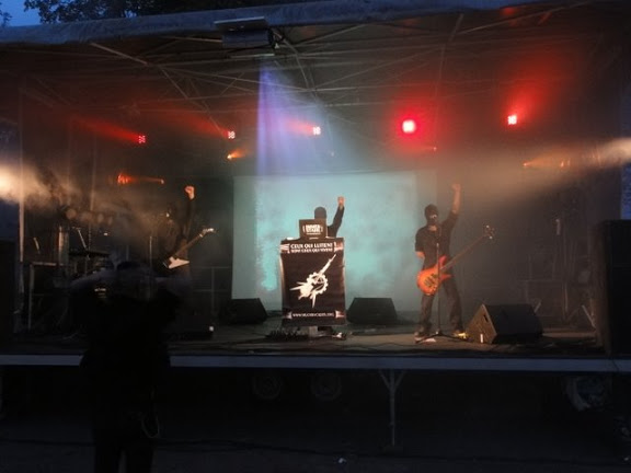 Muckrackers en concert lors du festival La Nouvelle Industrie Lorraine 5 à Uckange le 11 septembre 2011